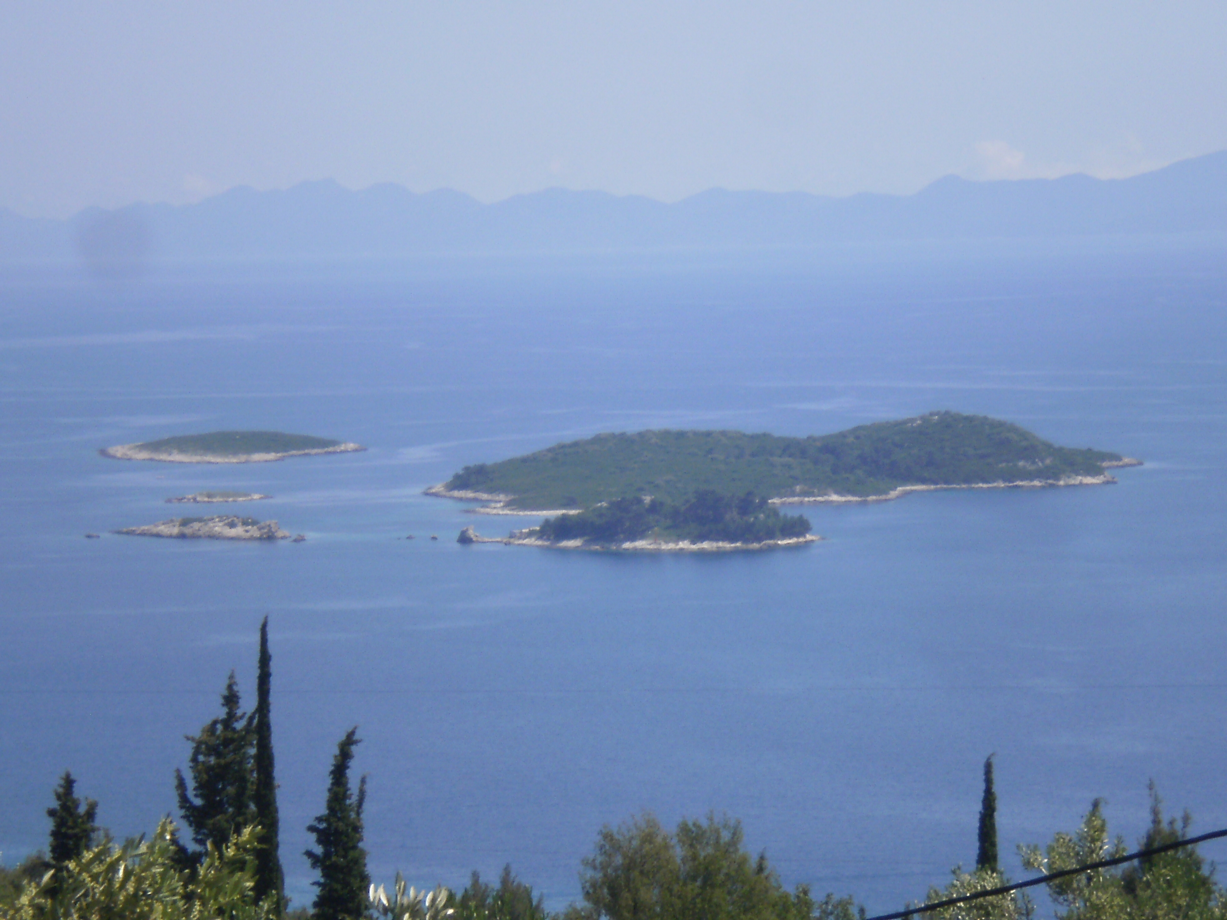 Islands in Pelješac channel OLYMPUS DIGITAL CAMERA